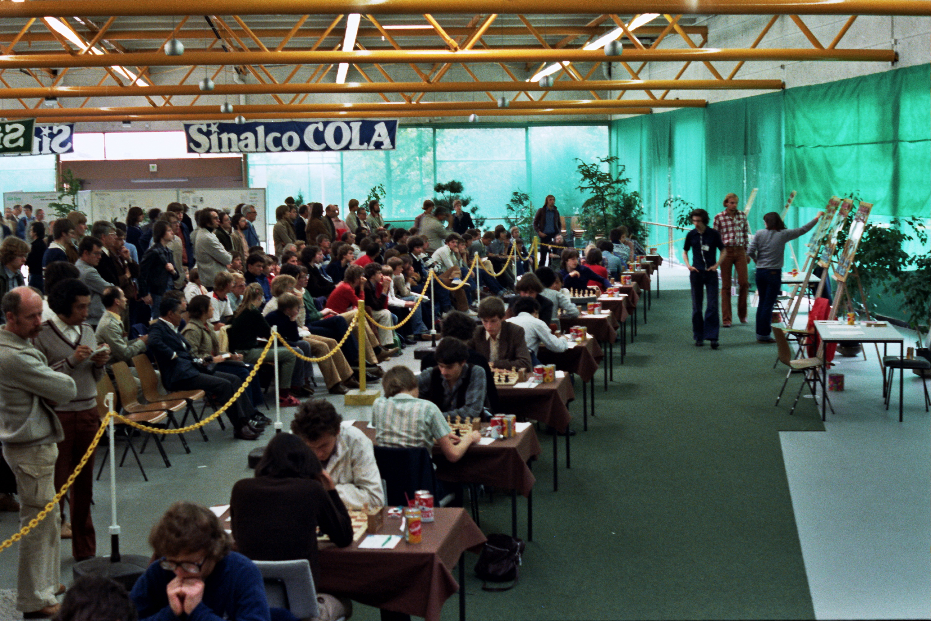 Tournament hall, Junior Chess World Championship 1980 at Dortmund, Photographer Gerhard Hund.